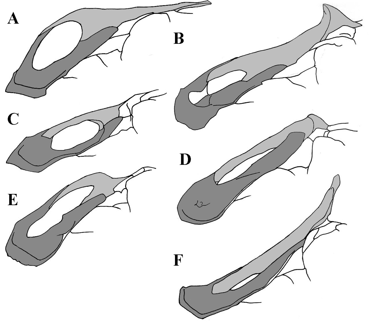 Reconstruction of the snouts of various hadrosaurines. A = Brachylophosaurus, B = Maiasaura, C = Edmontosaurus annectens, D = Prosaurolophus, E = E. regalis, and F = Saurolophus.